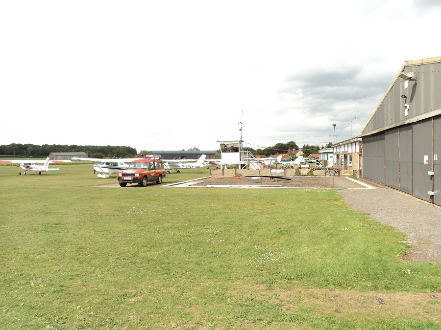 View looking NE, outside No.2 hangar, with Land Rover fire tender, signal square, tower, clubhouse and ops block in view